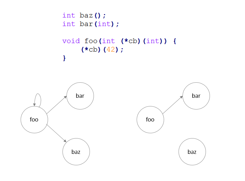 Call graph analysis. On the left is naive approach. On the right is analysis with considering of function types.